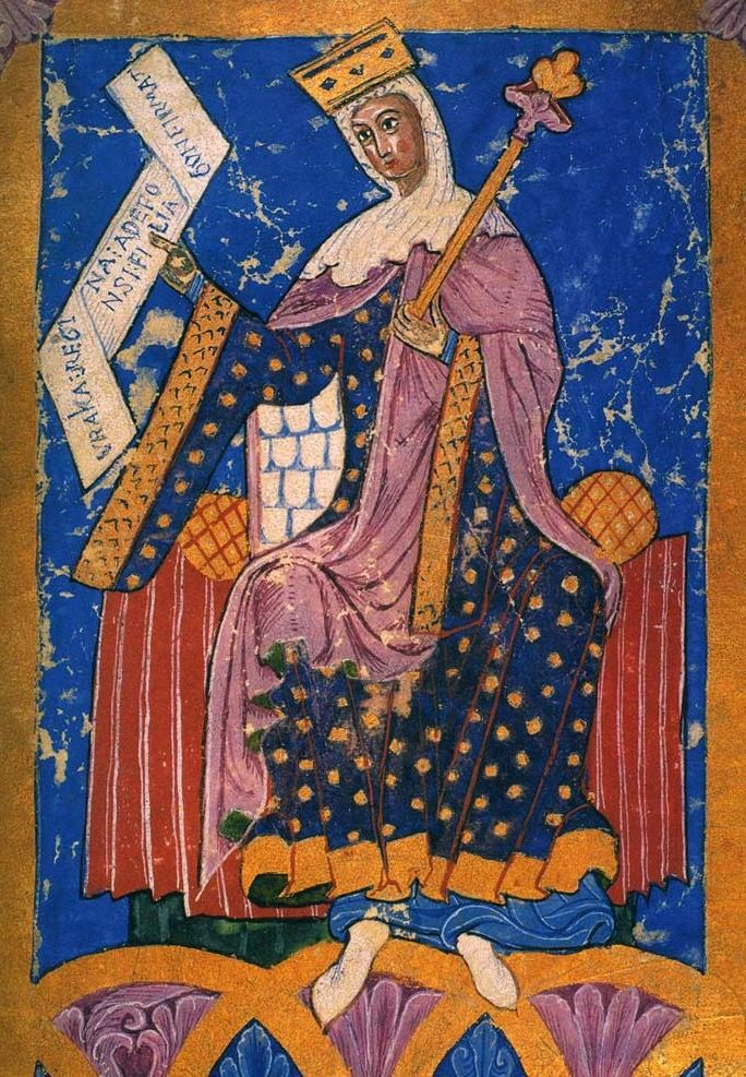 Tumbo A